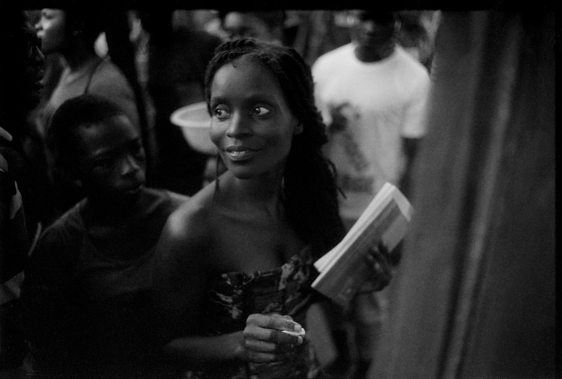 Nana Oforiatta Ayim, Chale Wote Street Art Festival, 2015